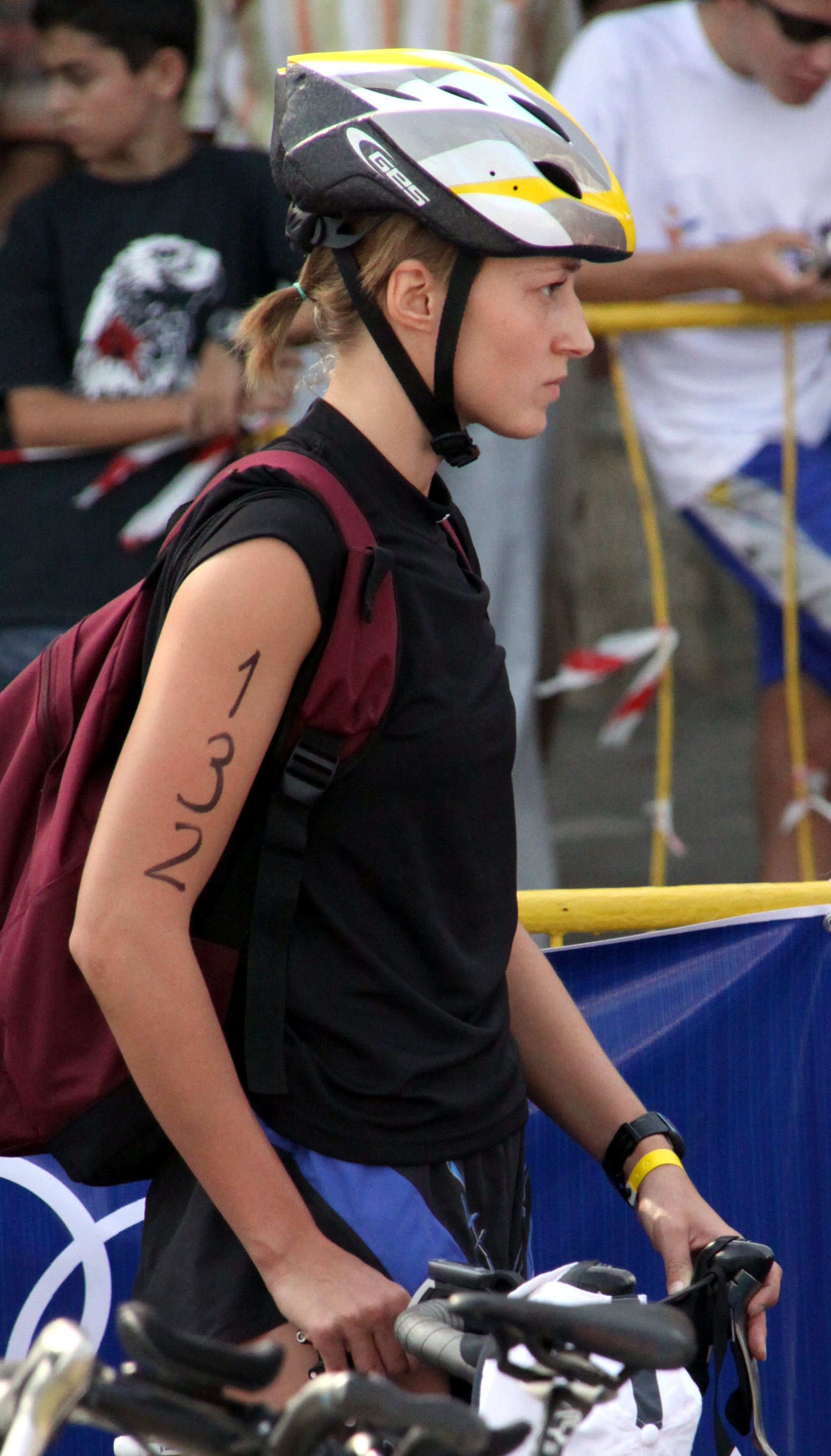 Anna Grzesiak at the Triathlon Premium European Cup in Alanya